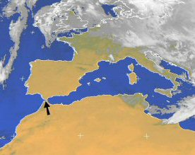 Gibraltar as "gate" of Mediterran Sea